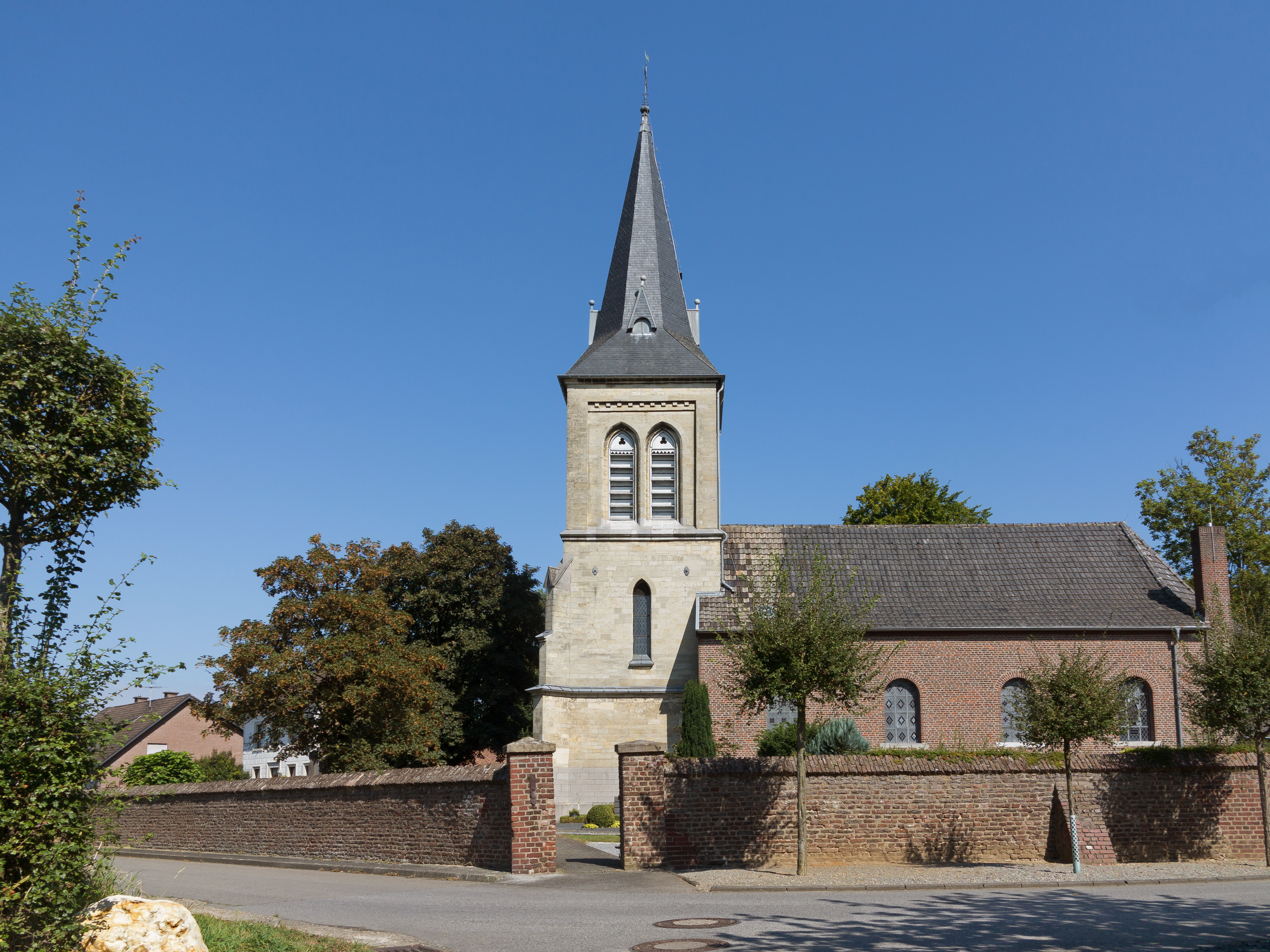 Wehr, catholic church - Pfarrkirche Sankt SeverinusThis is a photograph of an architectural monument., no. 43